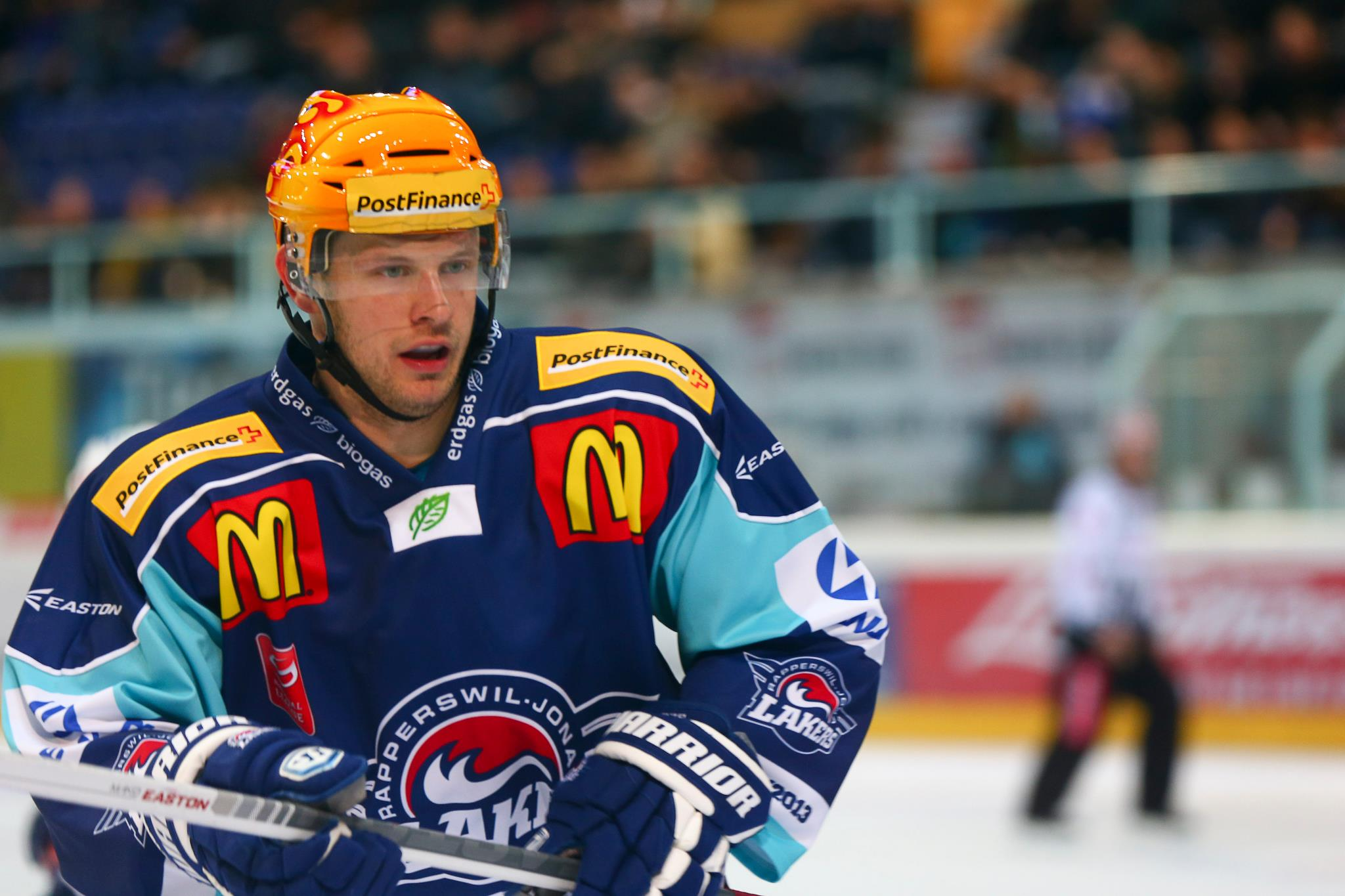 Jason Spezza plays with the Rapperswil-Jona Lakers in the Swiss National League A